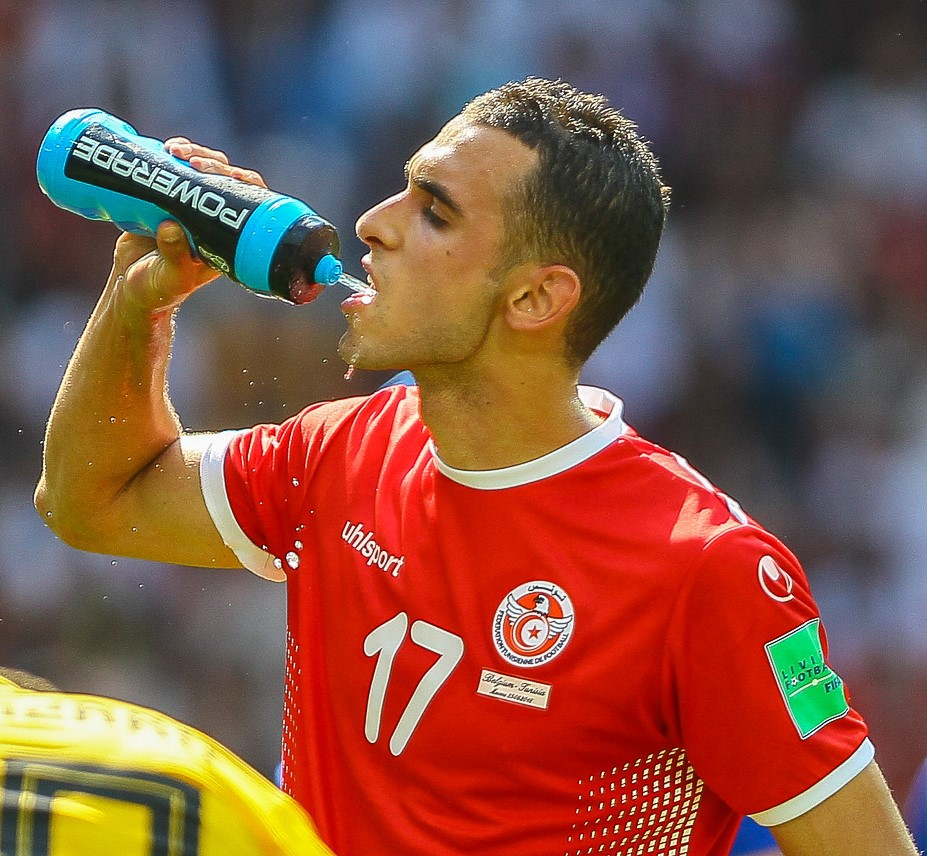 Ellyes Skhiri